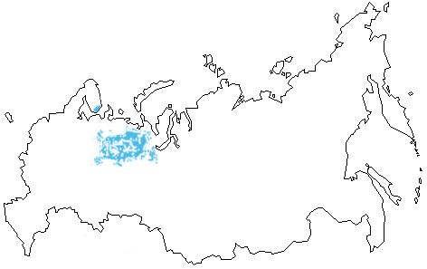 Komi people in Russia